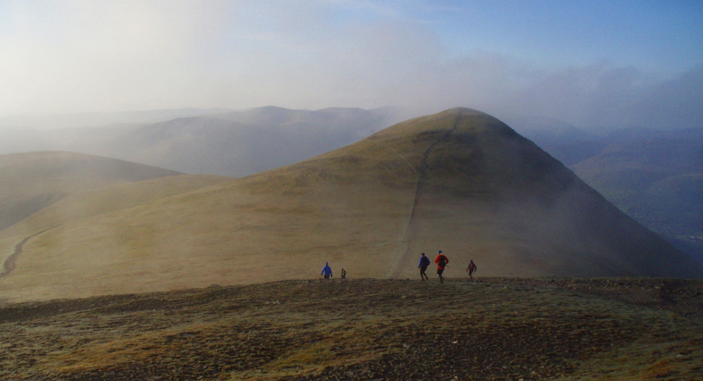 Skiddaw little man from the Keswick path. Bob Graham Round runner and supporters descending Skiddaw.